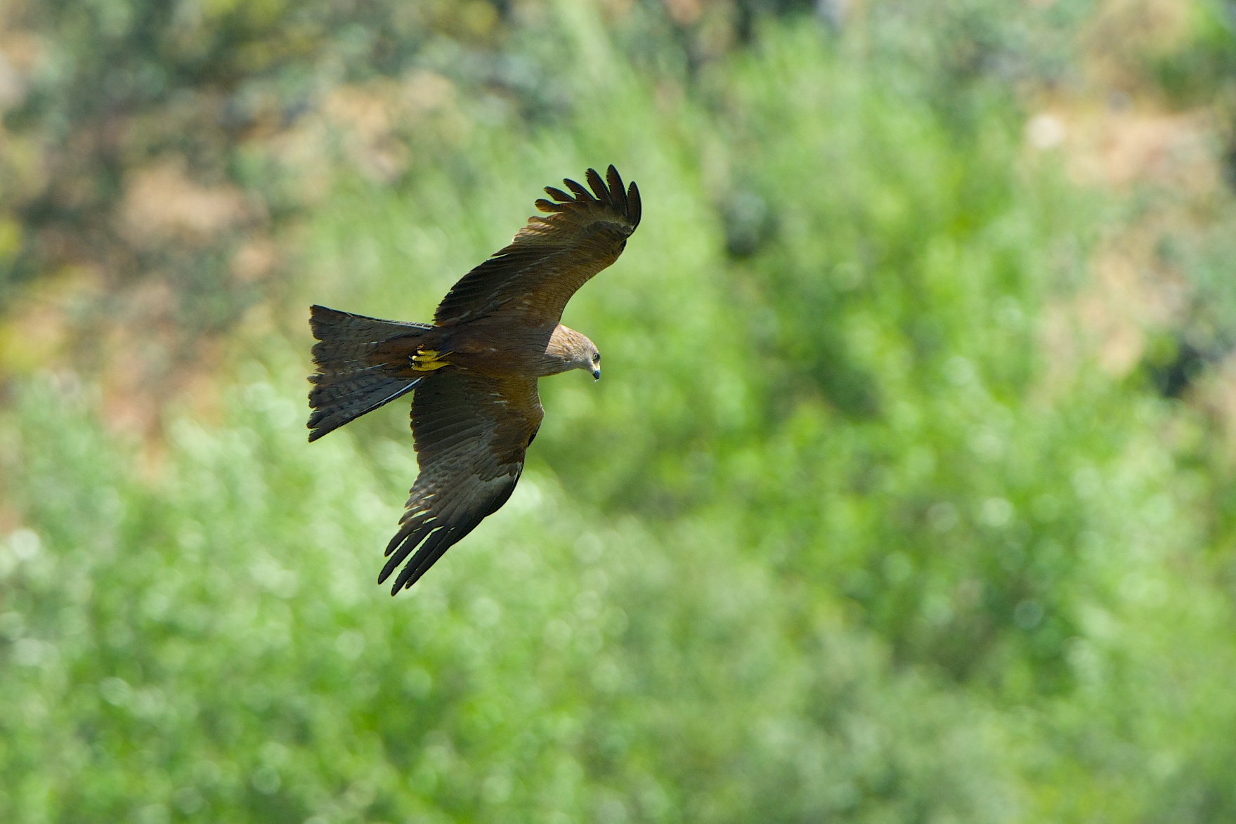 Black Kite in Flight, Monfrague NP, Spain